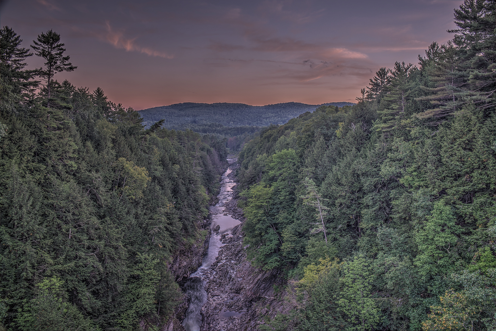 Quechee Gorge from US Route 4 Bridge